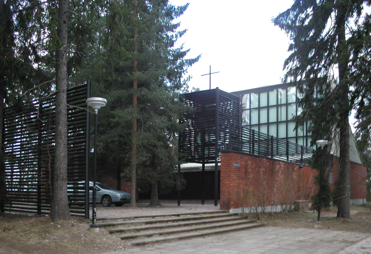 Otaniemi Chapel, architects Heikki and Kaija Sirén